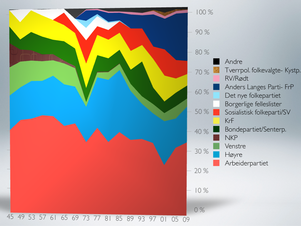 A graph of general election results in Norway, 1945-2009 Norsk (bokmål): En grafe som viser de forskjellige partienes resultater under stortingsvalgene i perioden 1945 til 2009